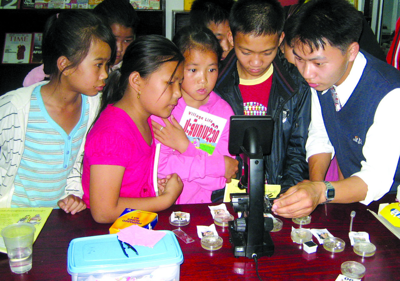 These young Lao students had never seen a microscope before. They got their first chance at a "Discovery Day" organized by Big Brother Mouse, a literacy project in Laos. Later that day they conducted electronic experiments, played a number game, and examined minerals and fossils. In this photo, they are looking at bacteria that had been cultured from a variety of sources. The digital screen provides a crisp image and allows several students to use it together. On other occasions, the microscope is used to watch brine shrimp larva, to look at prepared slides, and to examine plant and insect specimens that the students themselves collect.